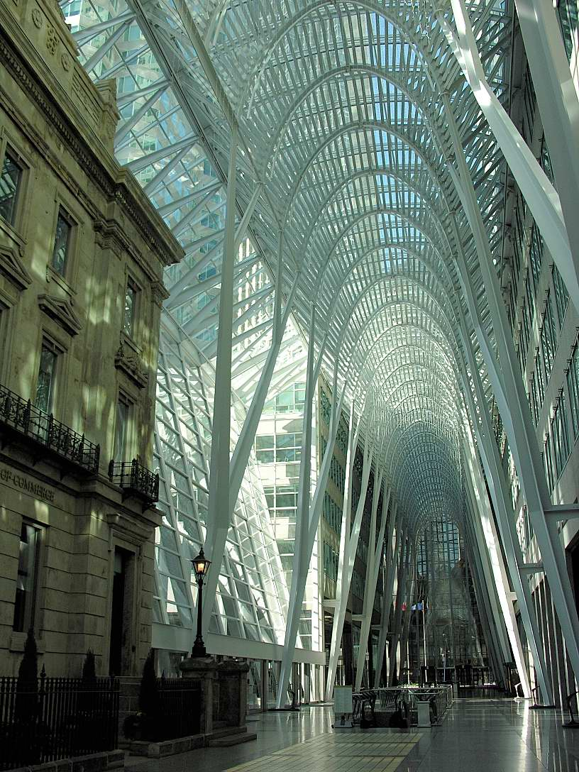 Allan Lambert Galleria (Brookfield Place), Toronto ON, Canada